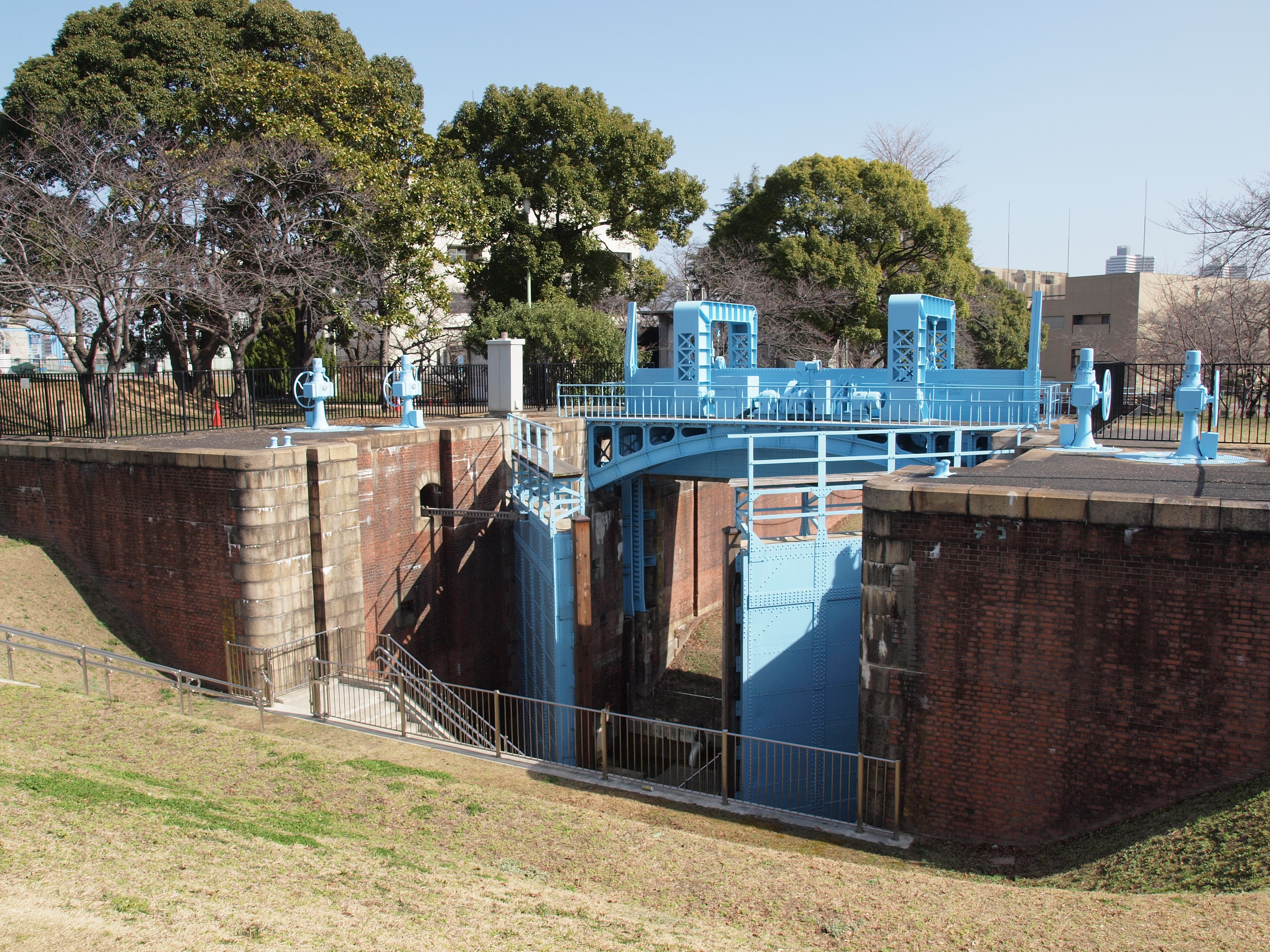 Old Kema Koumon (Canal locks) in Osaka, Japan